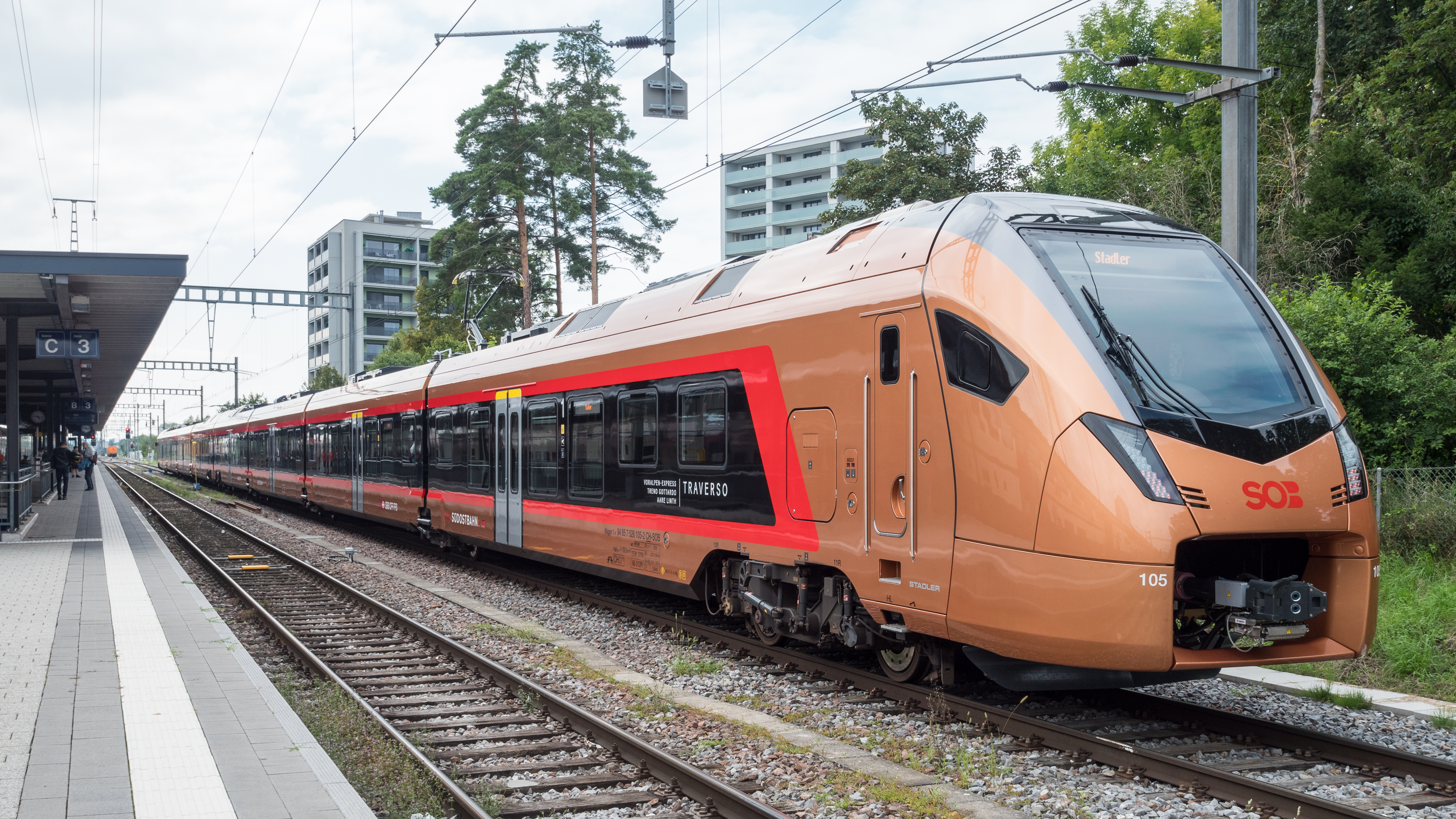 Südostbahn (South Eastern Railway of Switzerland) got new traina : SOB RABe 526 105 Traverso. Seen in Kreuzlingen.